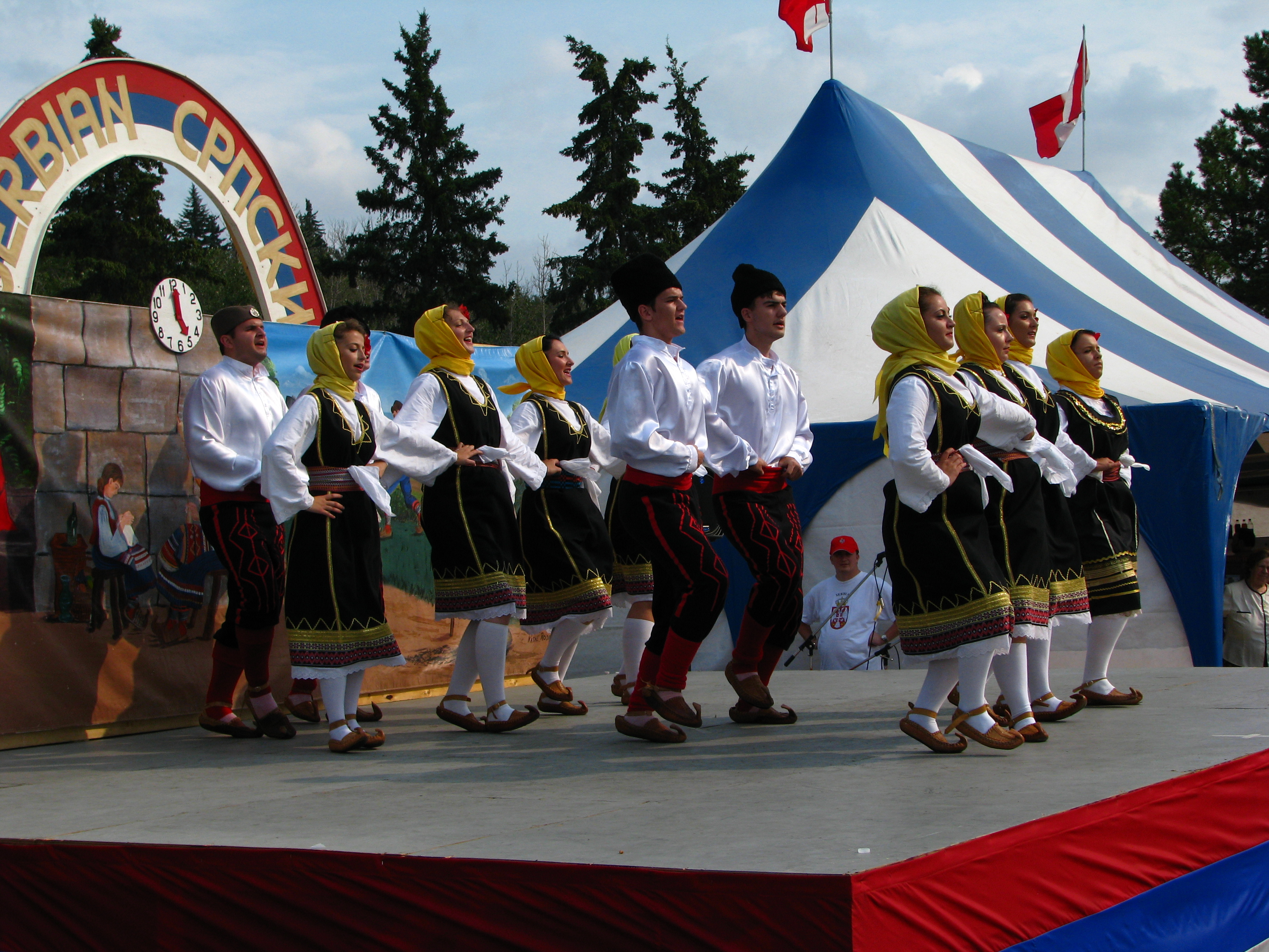 Serbian national costume of Southeast (Sop)